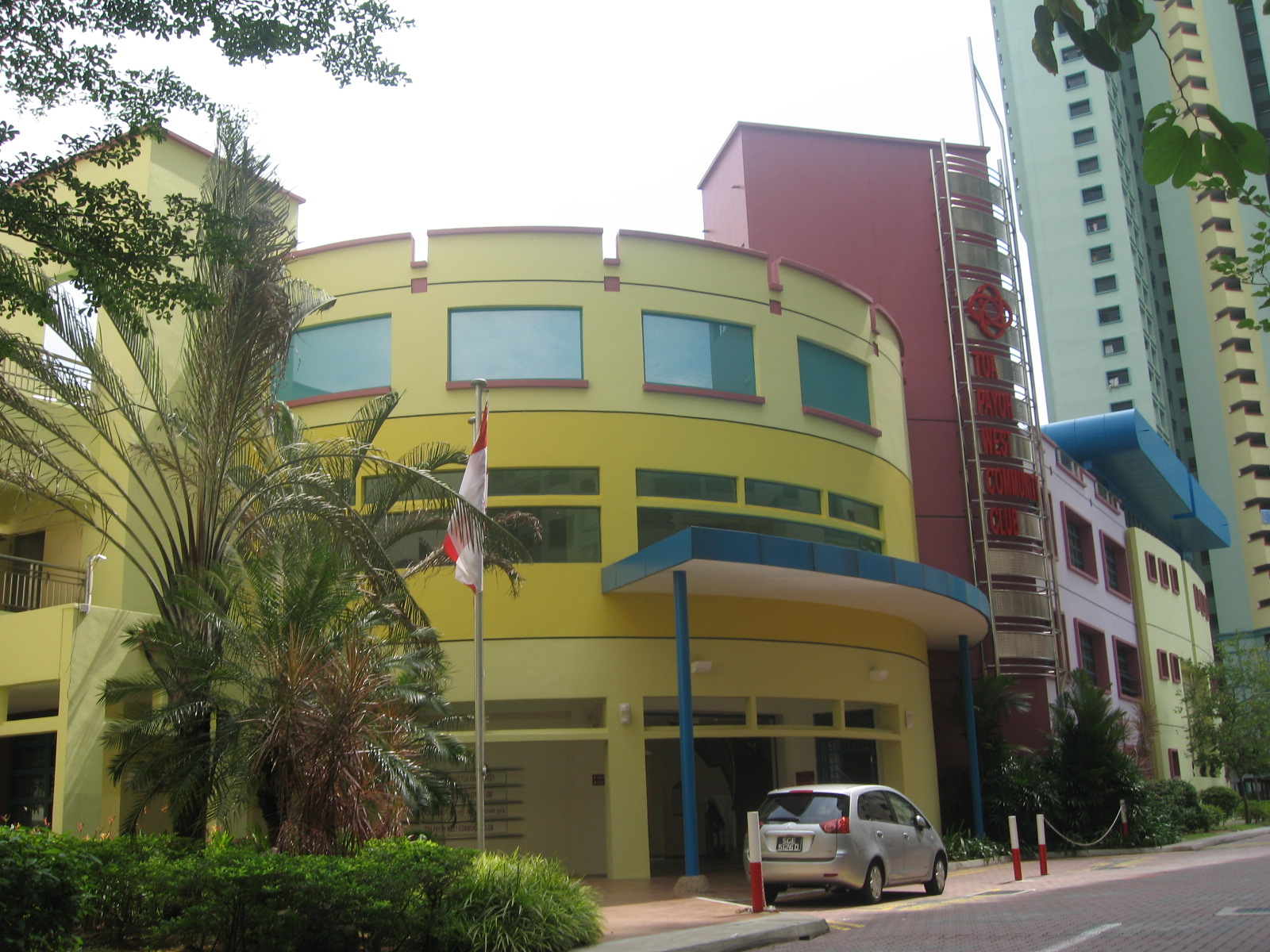 Toa Payoh West Community Club.